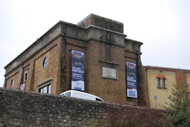 Maidstone Waterworks, East Farleigh The old water works built in 1860. Now converted to offices